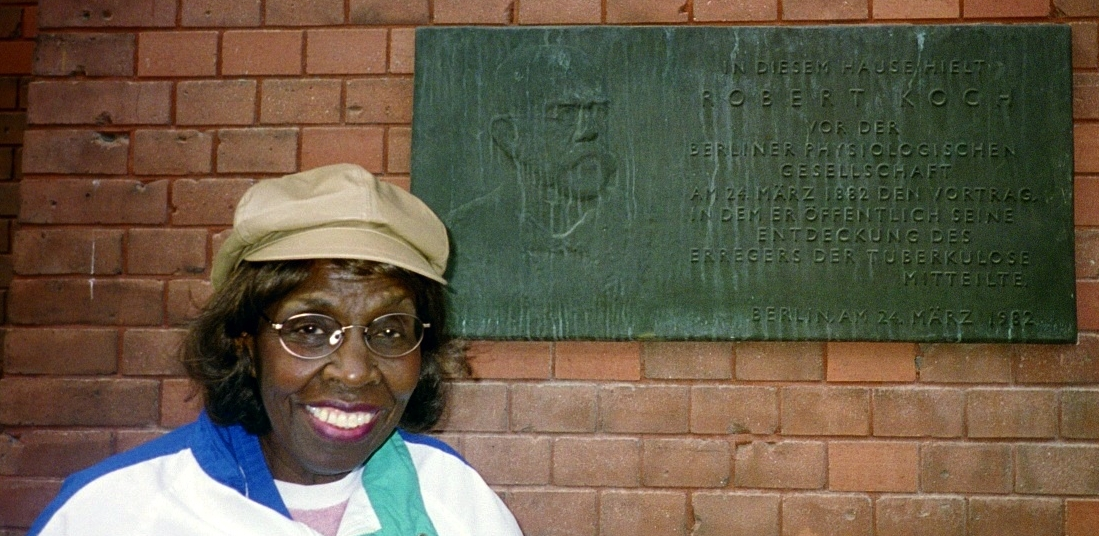 Sophia Ellis in Berlin